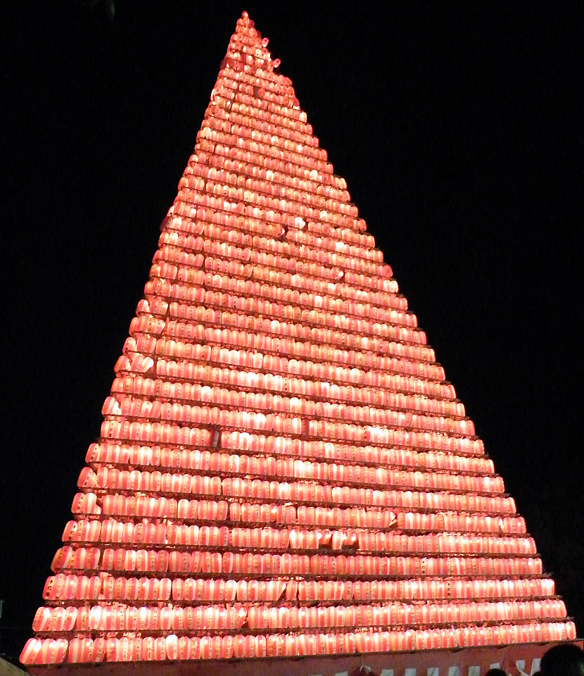 Tower of Emukae Sentoro Matsuri(Nagasaki)